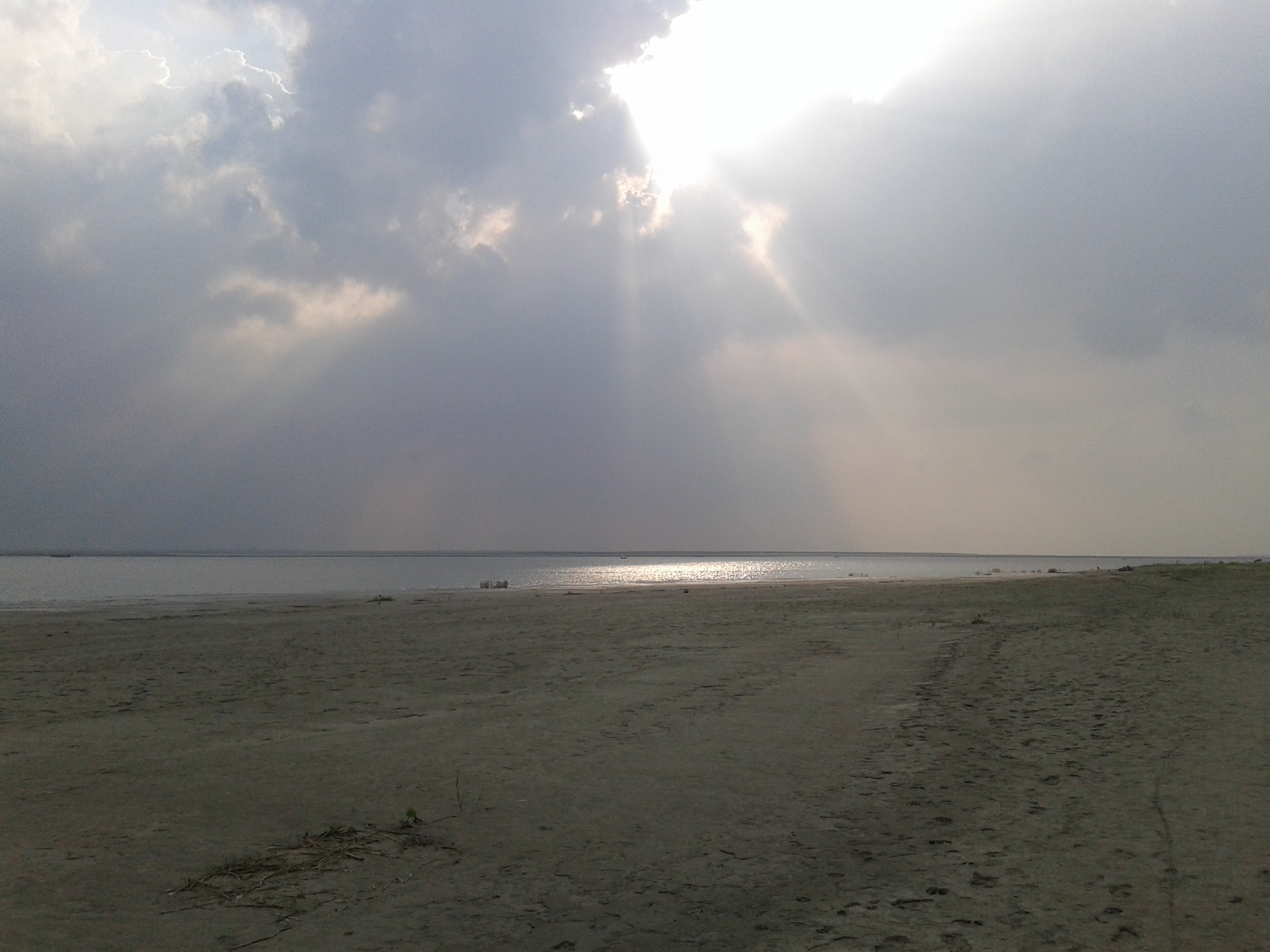 This image shows the Padma river in summer season.